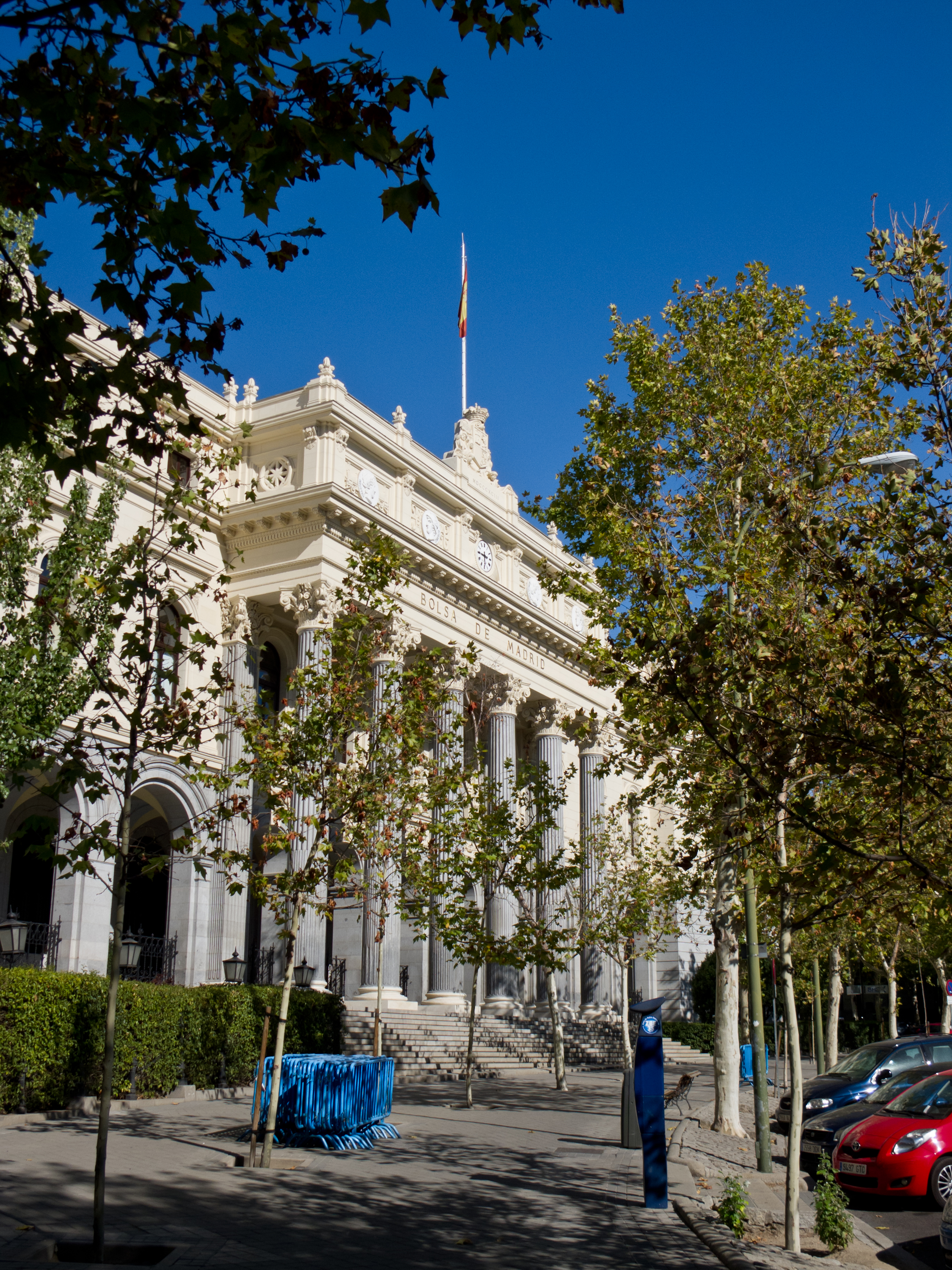 Palace of la Bolsa de Madrid, Spain.